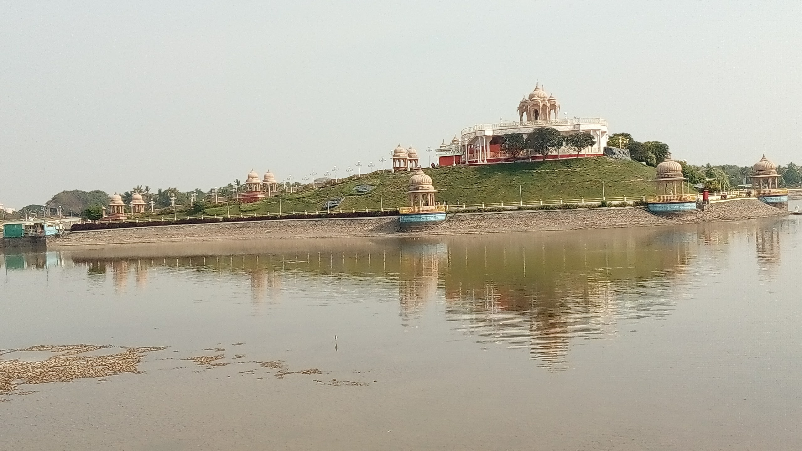 A Very Attractive and Popular Tourist Place in Maharashtra Akola district , It is an one of most tourist attraction of Maharashtra . It is an which is Known as for its Temple of Lord Shiva and Gajanan Maharaj, and for it's Amusement parks.